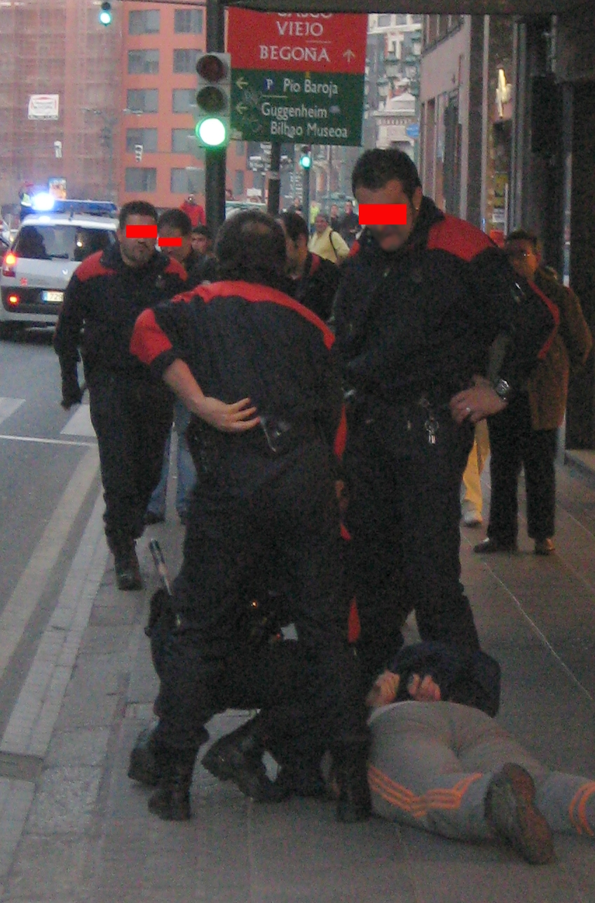 Ertzainas (officers of the Ertzaintza, police corp of the Basque Government) hold a male in Buenos Aires Street in Bilbao, capital city of Biscay, Basque Country, Spain.